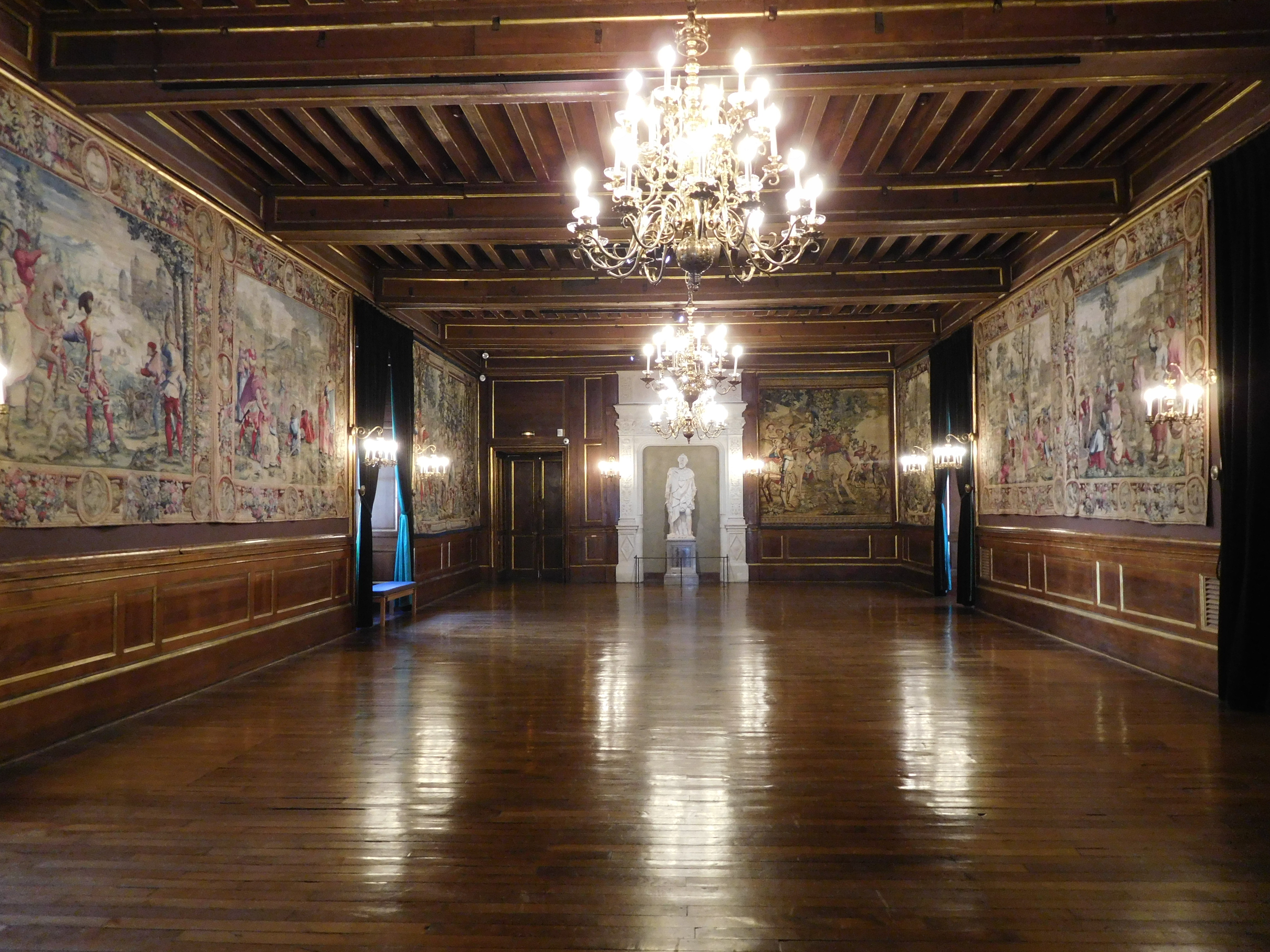 Pau Castle .